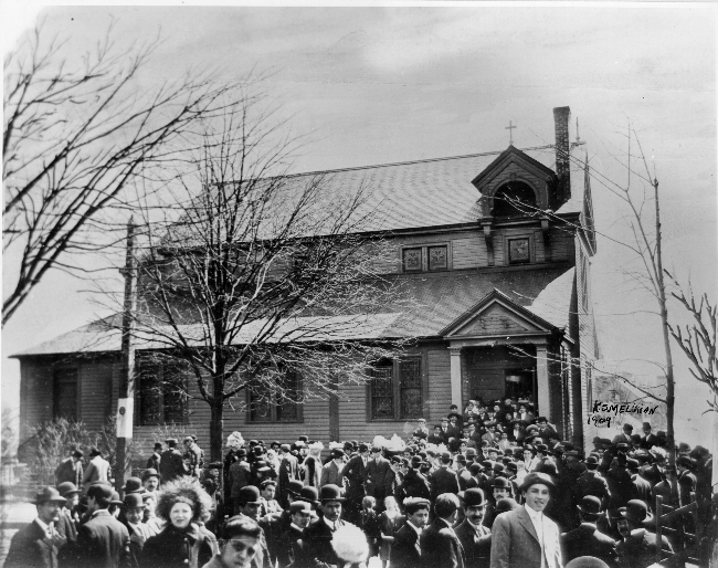 The original Armenian Apostolic Church of Our Saviour on Laurel Street, Worcester, MA in 1909